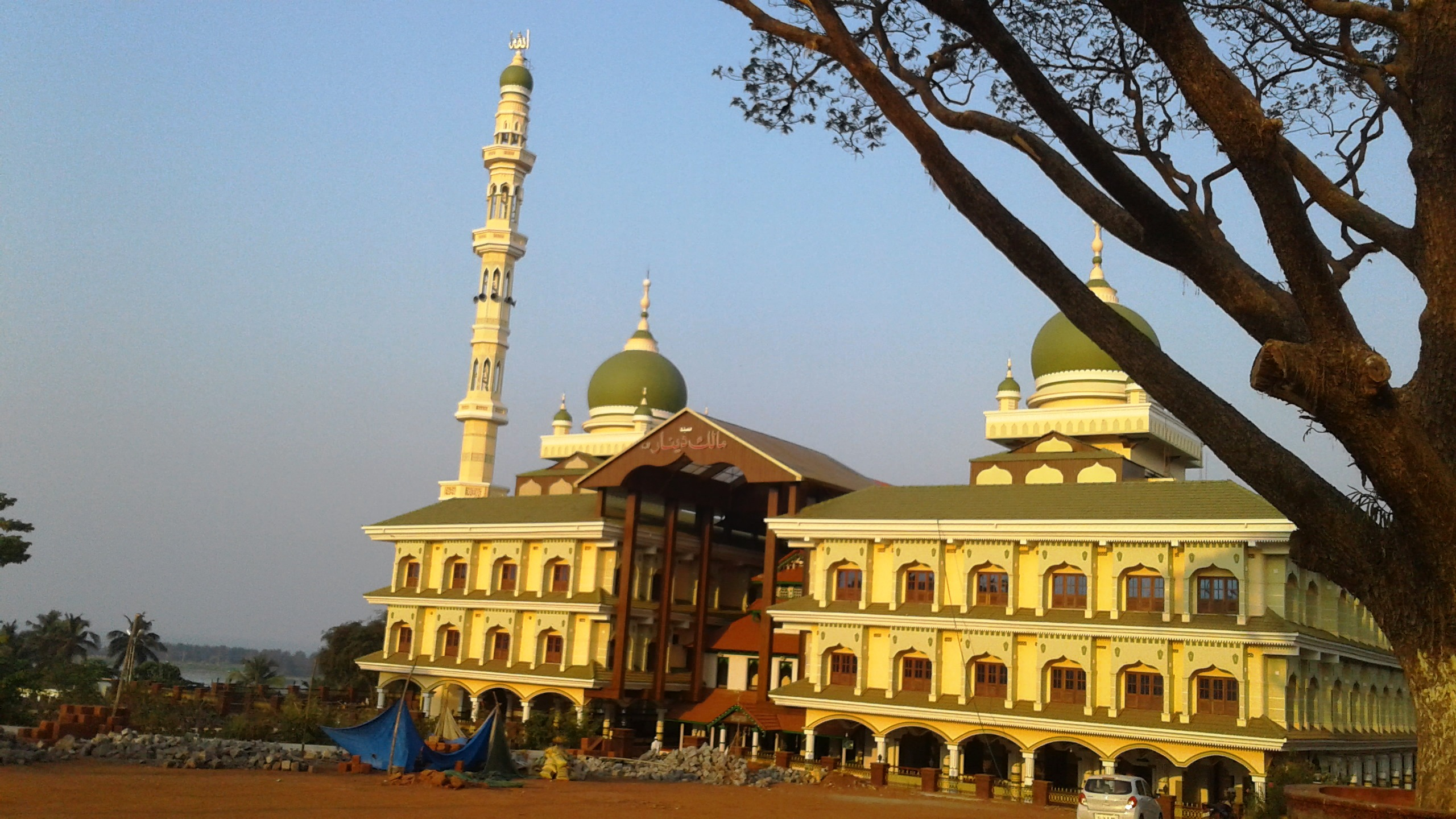 They have destroyed the ambience of the period mosque by building two concrete adventures on either side of it. Located at Thalangara Wharf, Kasaragod district, Kerala state, India.